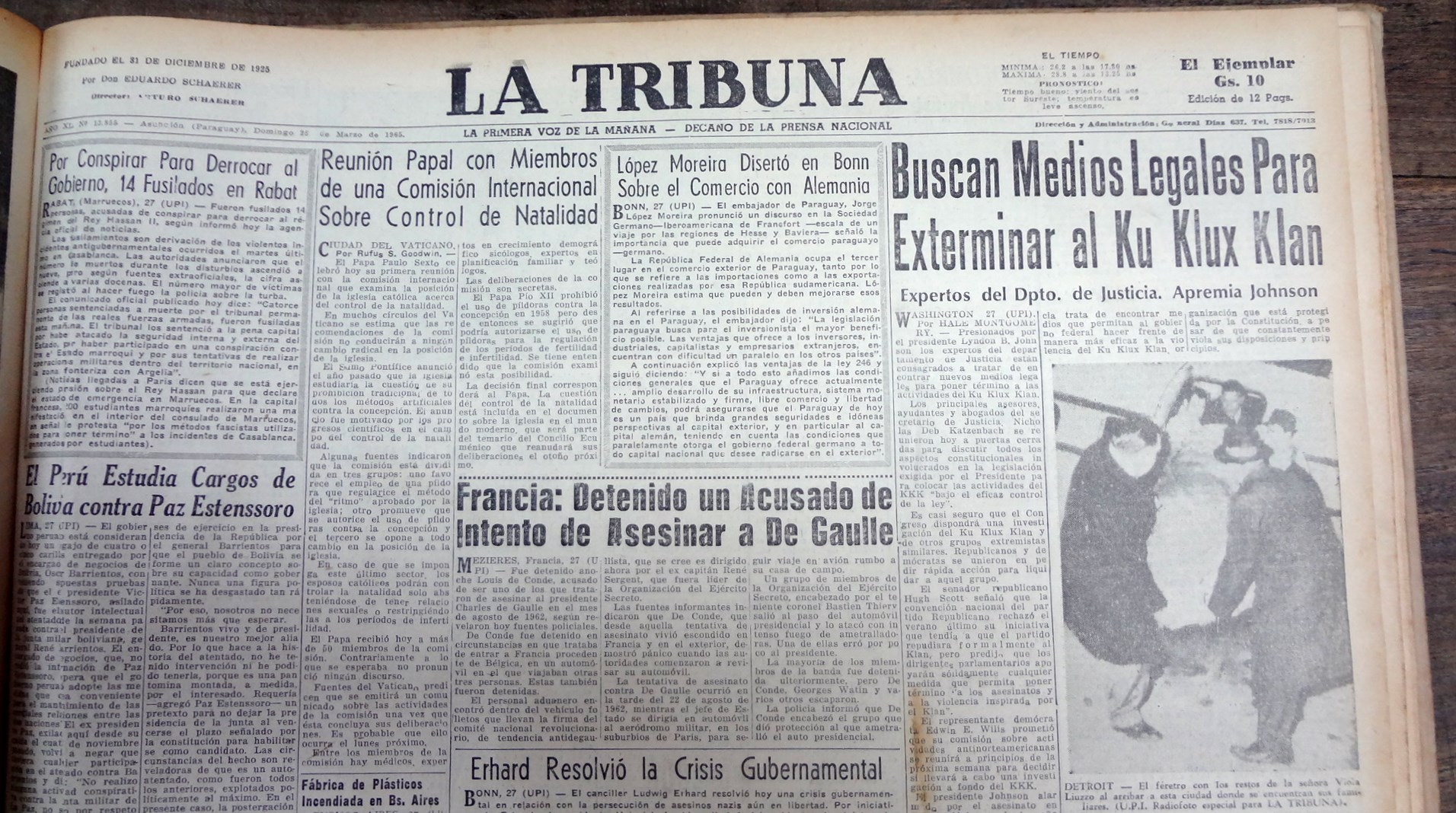 La Tribuna. Broadsheet Format.